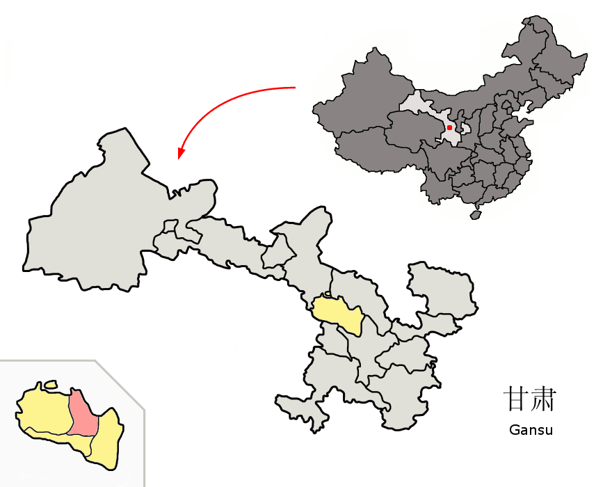 Location of Gaolan County (pink) within Lanzhou Prefecture (yellow) and Gansu province of China Map drawn in september 2007 using various sources, mainly : Gansu province administrative regions GIS data: 1:1M, County level, 1990 Gansu Counties map from